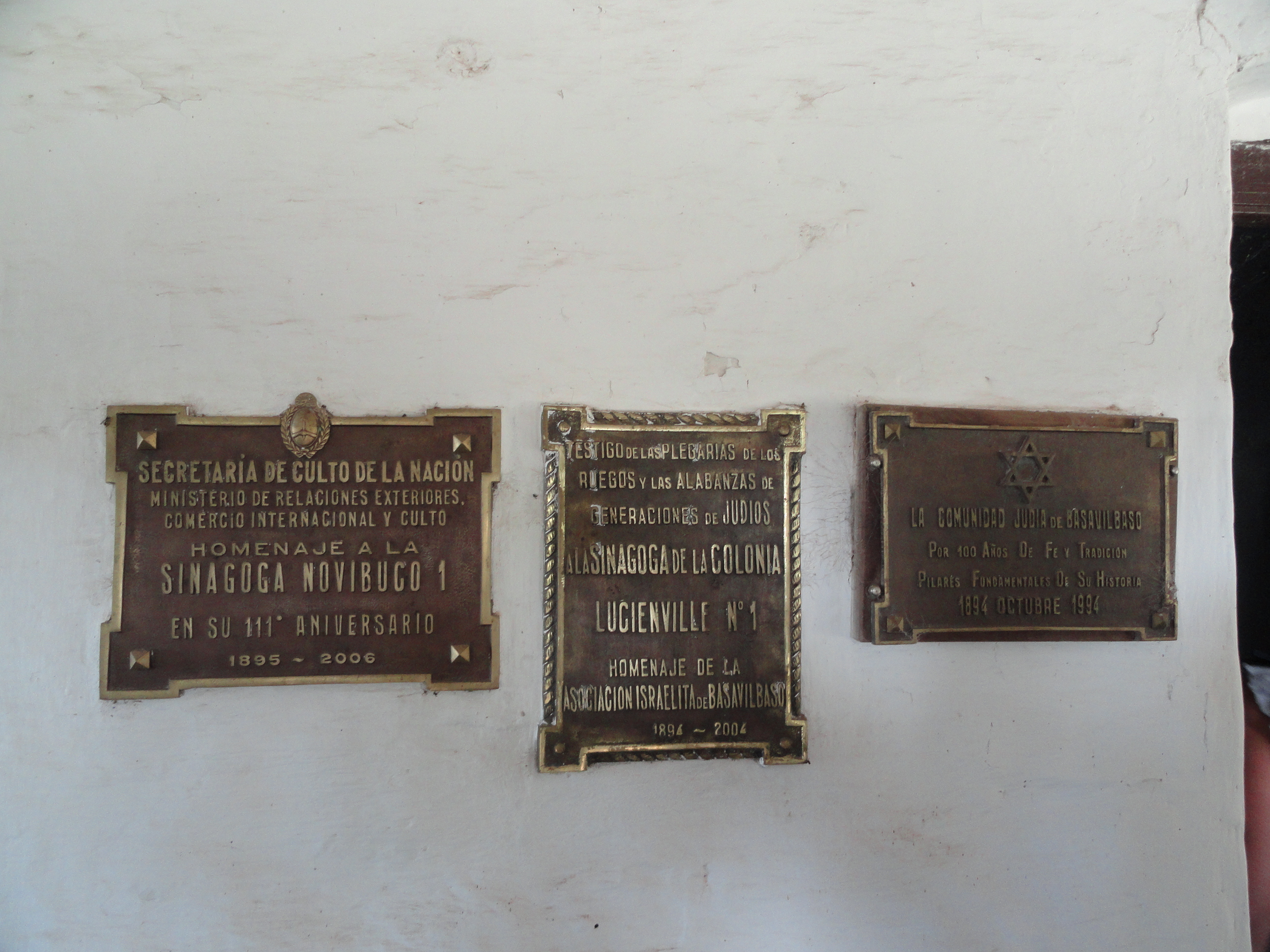 Synagogue of Novibuco in the old Jewish colony of Lucienville in the Entre Rios province in Argentina. Commemorative plates